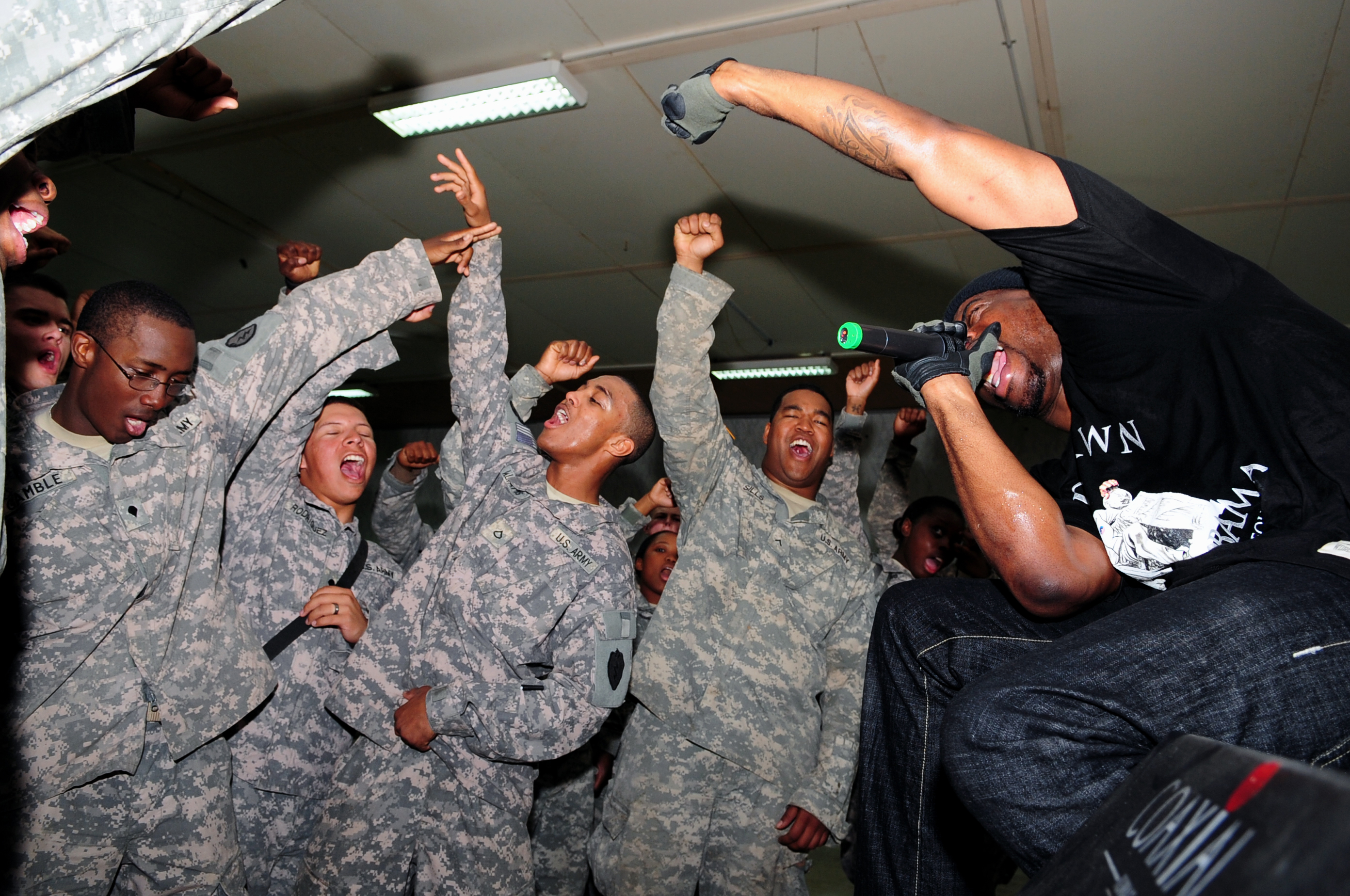 David Banner pumps up the crowd during his show for U.S. Soldiers assigned to 2nd Infantry Battalion, 35th Infantry Regiment, 3rd Brigade Combat Team, 25th Infantry Division at Forward Operating Base Brassfield Mora, Iraq, on Jan. 26, 2009.